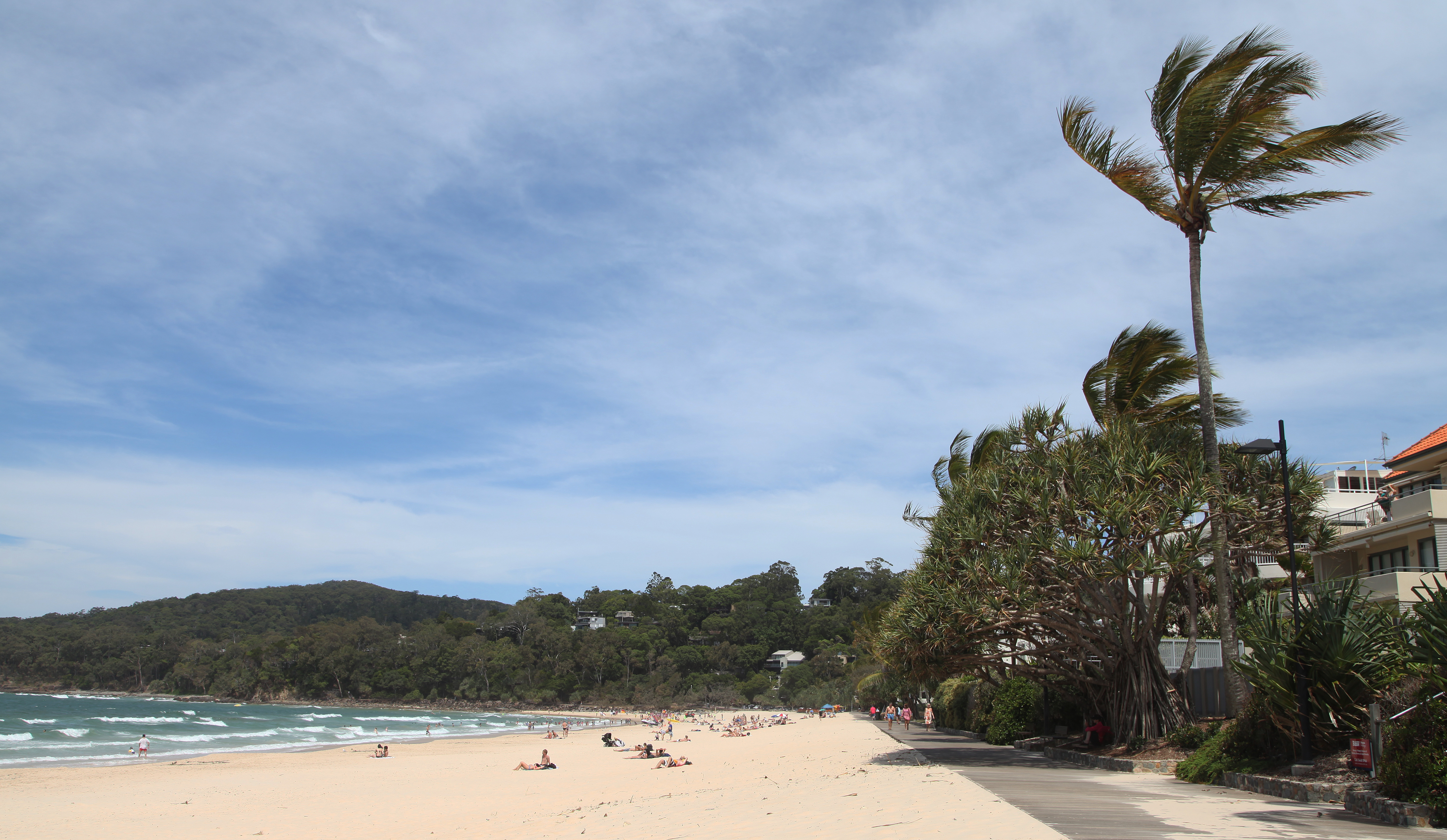 Beach at Noosa Heads, Queensland